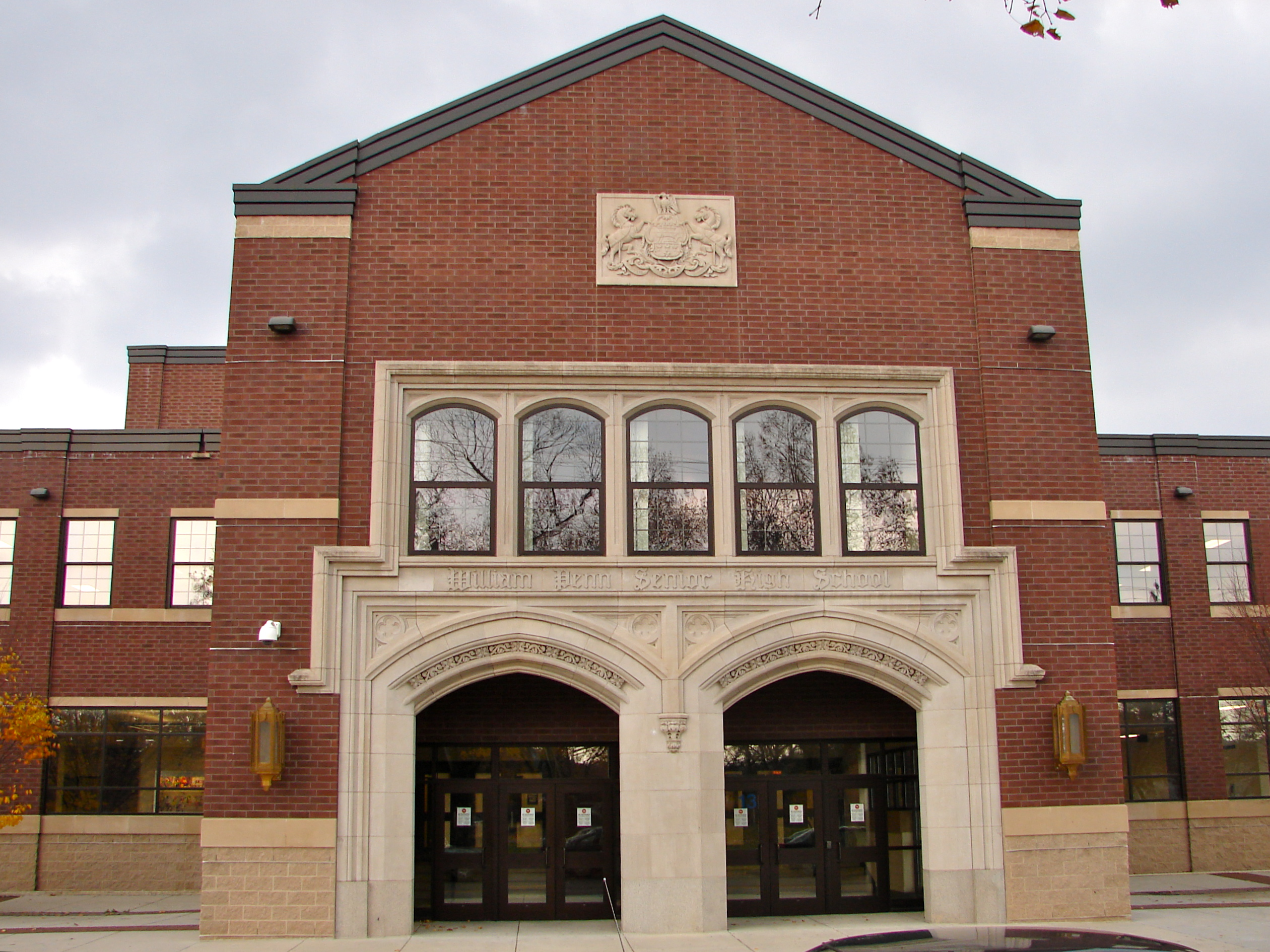 William Penn Senior High School in York, Pennsylvania across the street from Penn Commons.